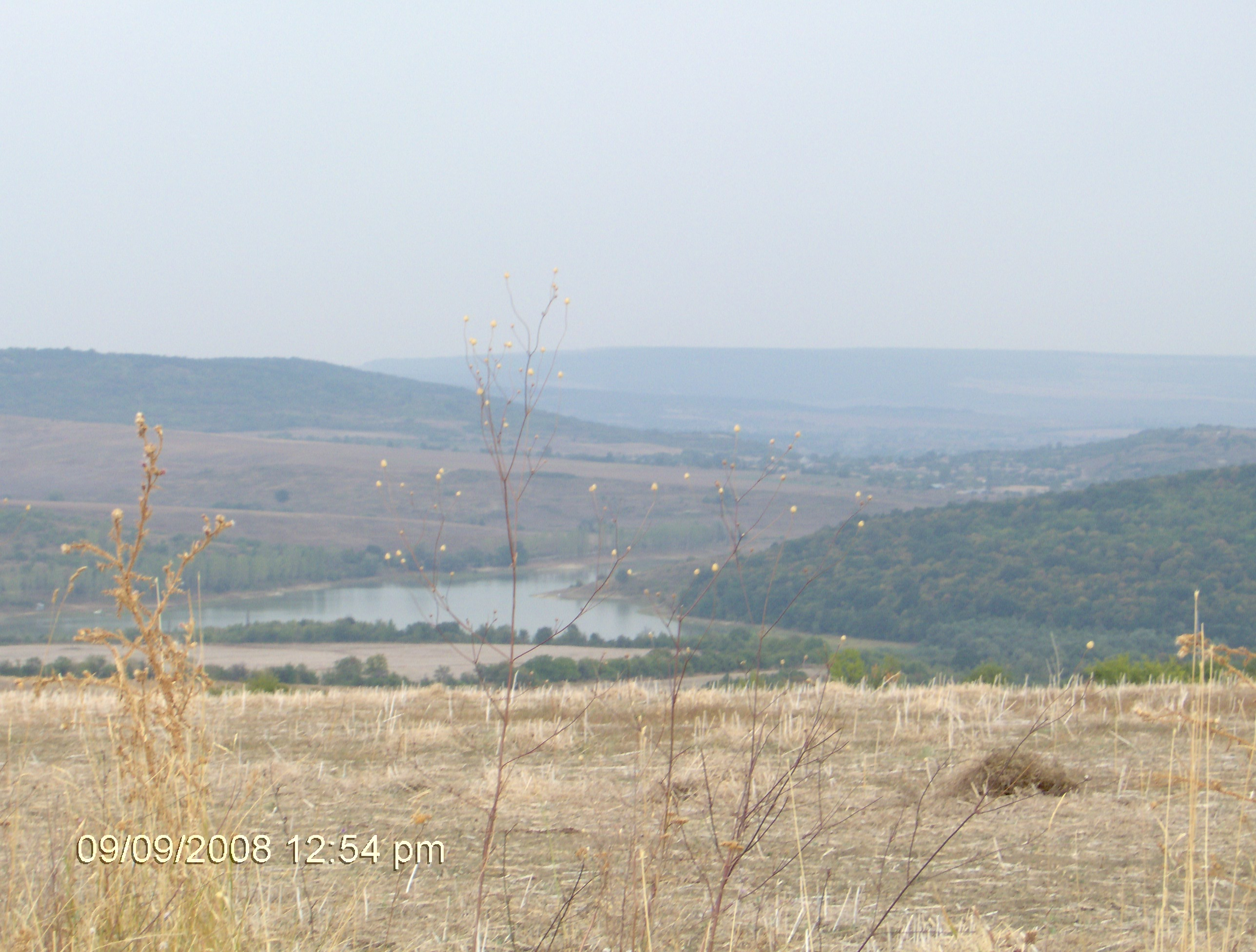 View to Yazovir Rosina.